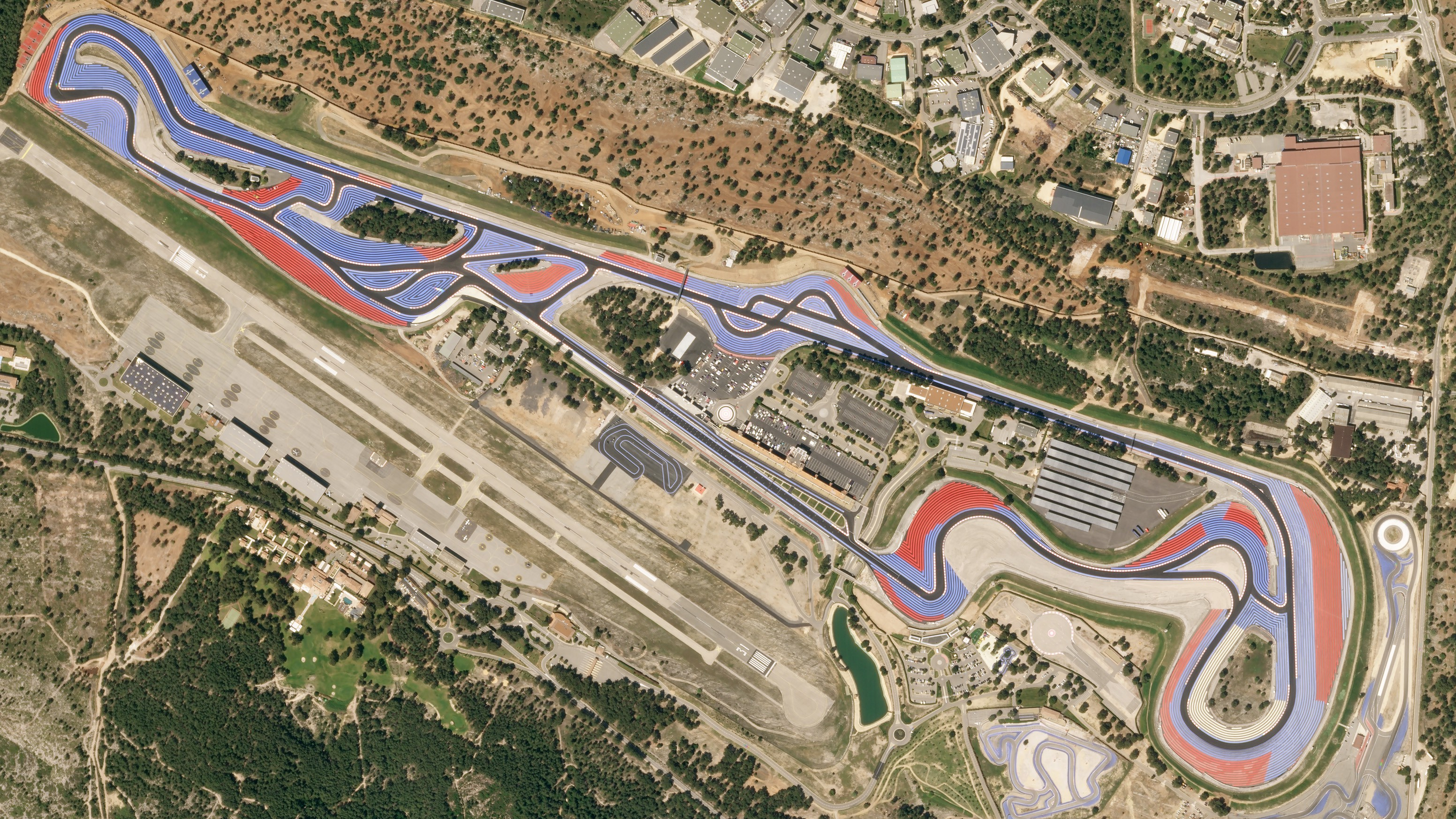 The Circuit Paul Ricard, a motorsport race track near Marseille, in France, that used to host the French Grand Prix. Image taken on April 22, 2018, by a Planet Labs SkySat satellite.